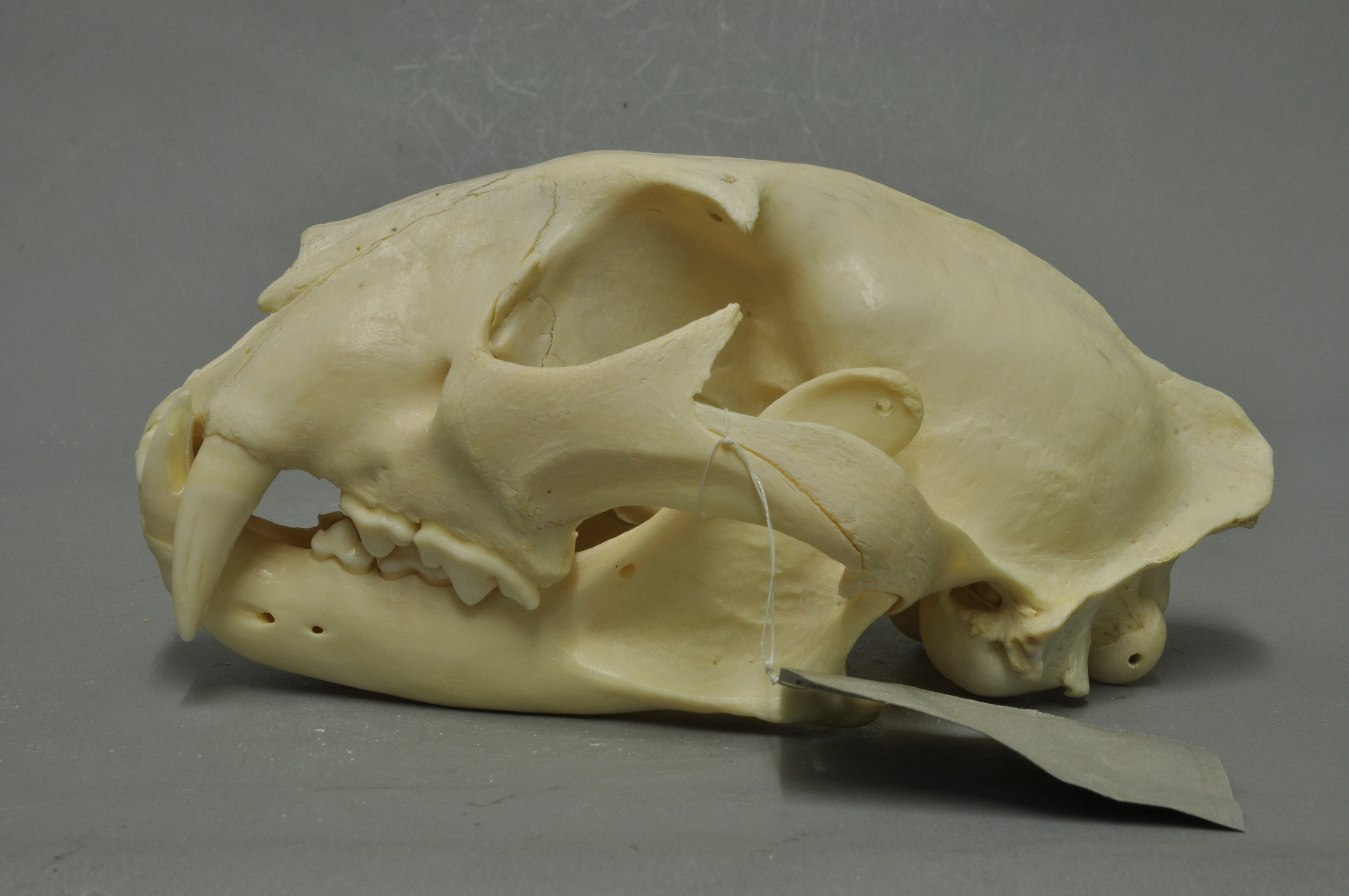 Javan leopard Panthera pardus melas, skull, Coll. Museum Wiesbaden